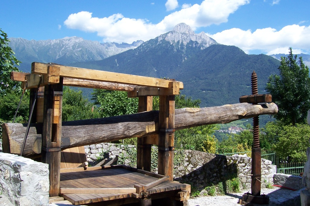 Wine press, Cerveno, Val Camonica